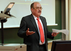 Francisco Rubiales Moreno, (Villamartín (Cádiz), 1948) is a Spanish writer and journalist.